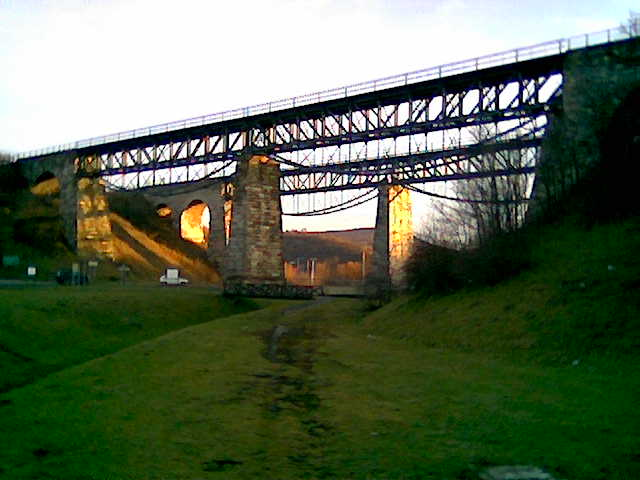 Abandoned railway wiaducts near Biatorbágy, Hungary